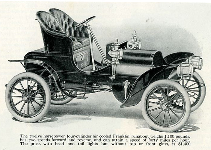 In a Country Life magazine article about the 1905 motor cars. 1905 Franklin Type E, 12 hp 4 cylinder air cooled runabout.